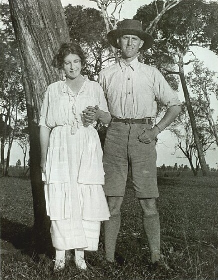 Baroness Karen Blixen and her brother, engineer Thomas Dinesen, on the baroness's African farm